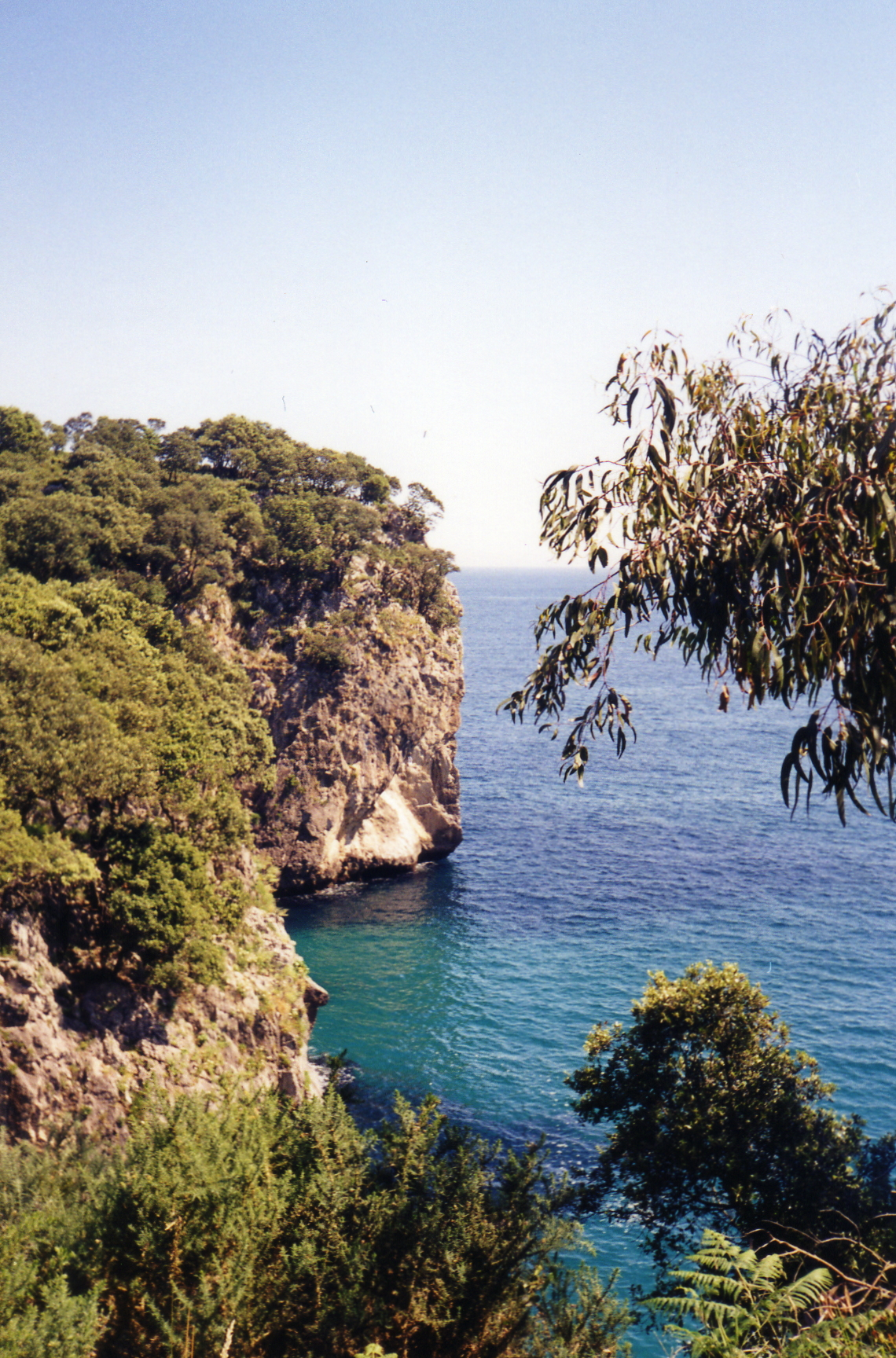 Somewhere in Asturian coast (Asturias,Spain)